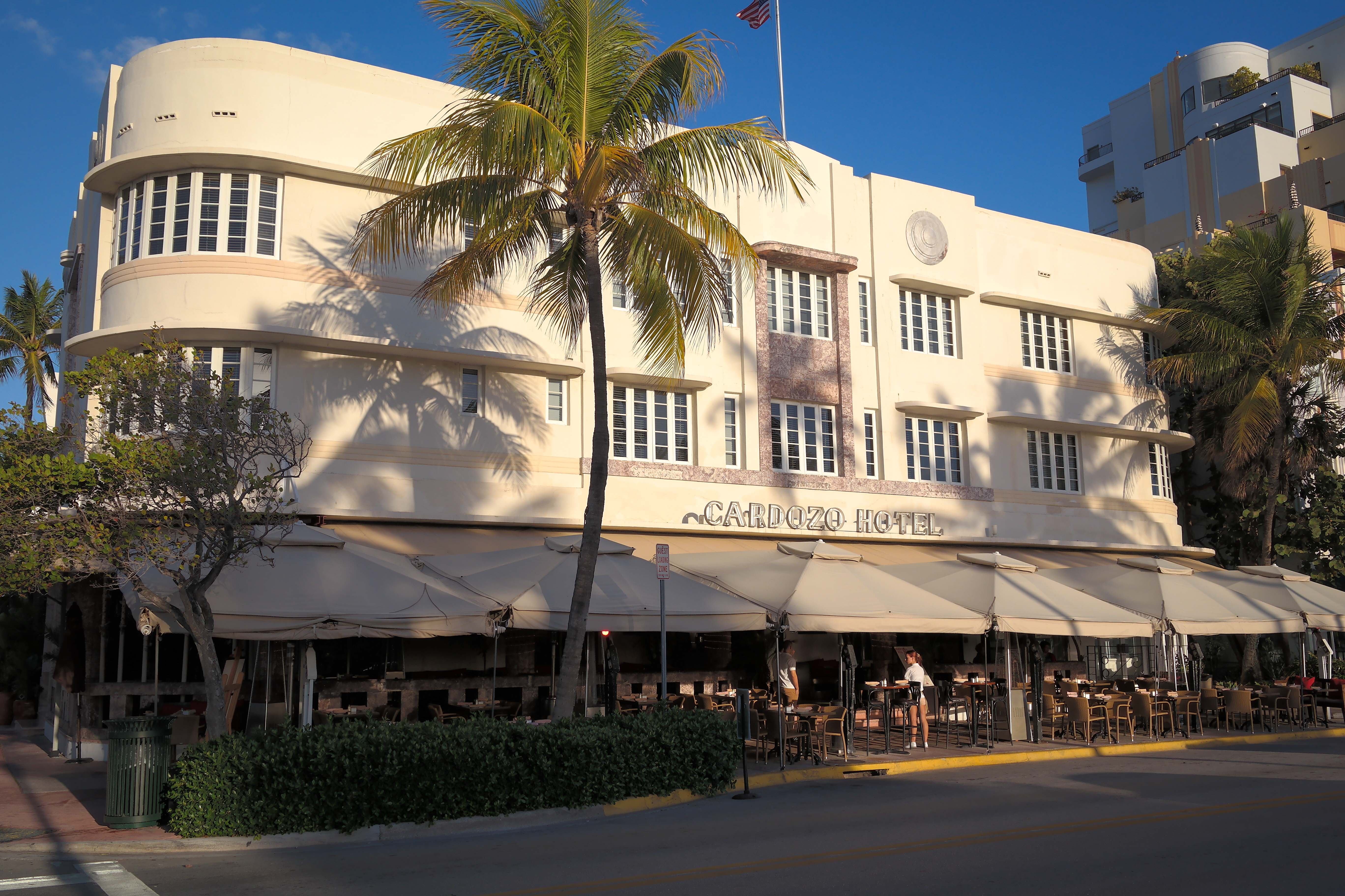 The Cardozo Hotel in Miami Beach, Florida